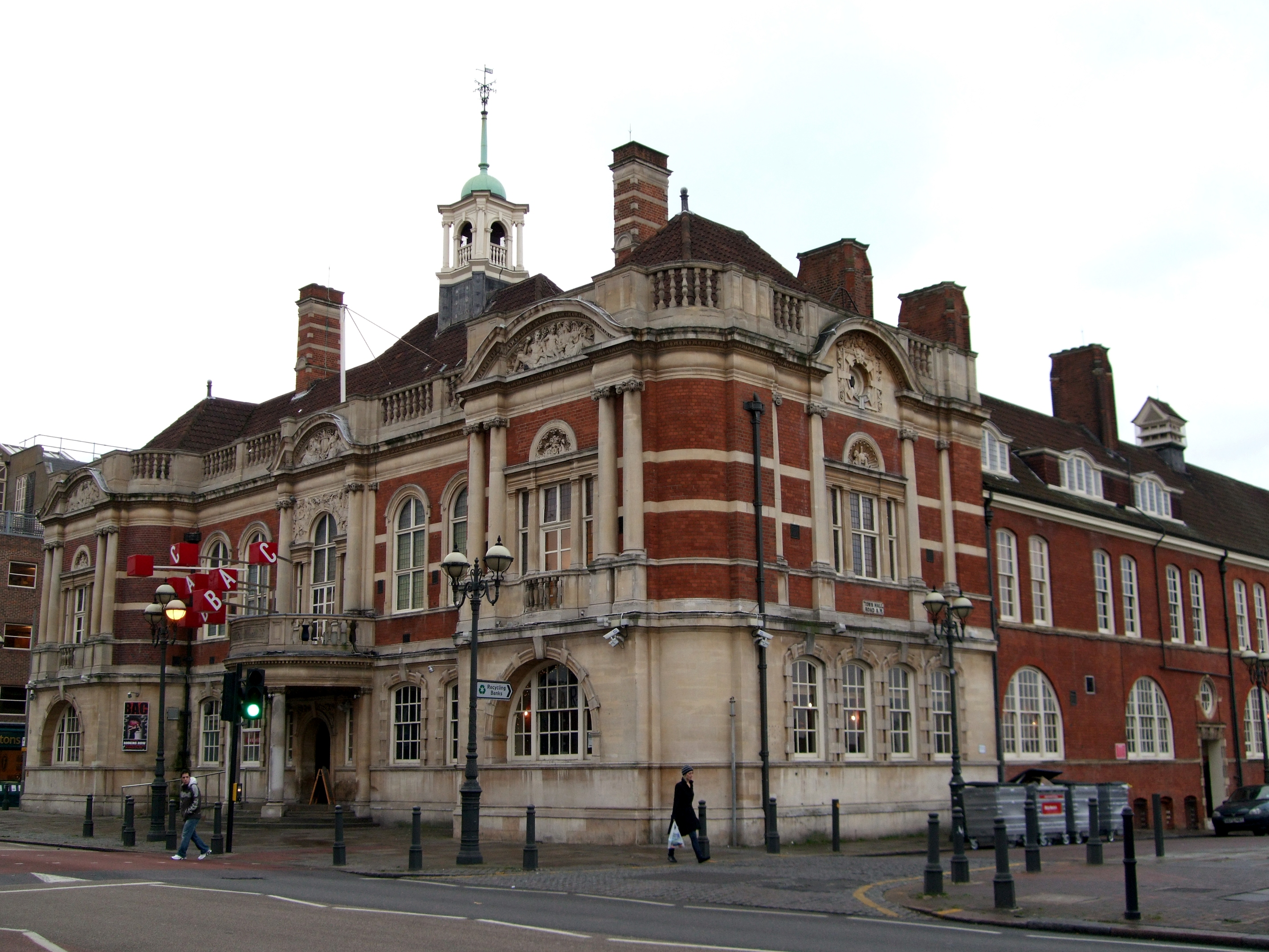 A fine old building housing an arts centre, with live performances, music, theatre and comedy, amongst other things. Opened in 1893, and has occasionally screened films in the past. Address: 176 Lavender Hill. Owner: (website). Links: Wikipedia Cinema Treasures